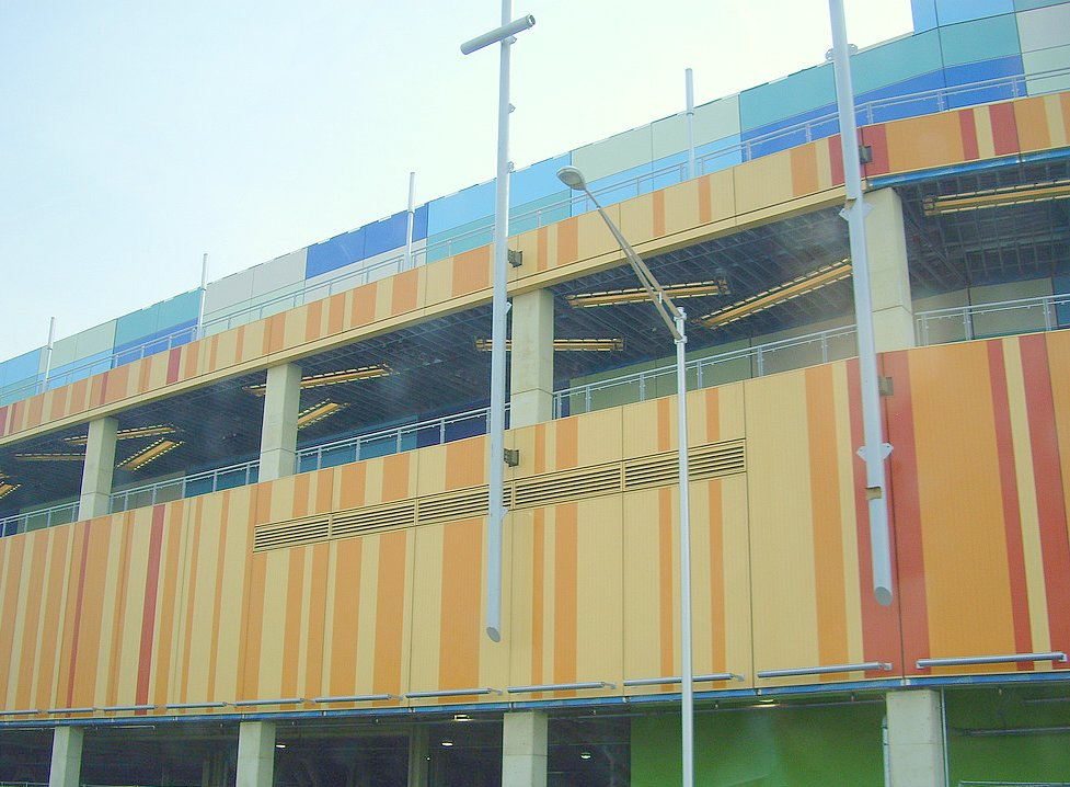 Meadowlands Xanadu Parking Garage